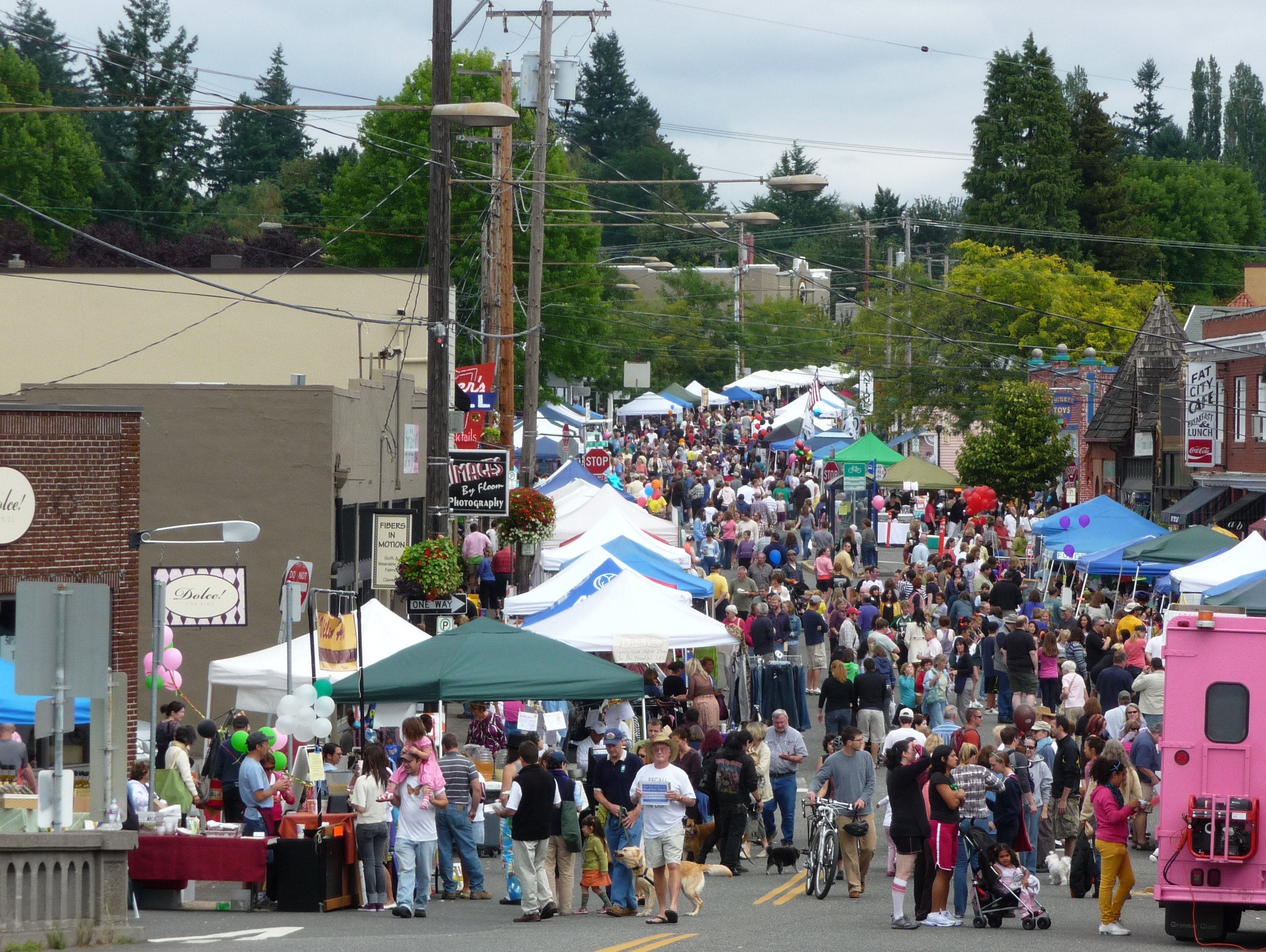 The street fair during 2009's "Multnomah Days" in the Multnomah neighborhood of Portland, Oregon, USA. View is northeast along SW Capitol Highway, from its bridge over SW Multnomah Blvd.